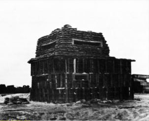 MCB 3 bunker at Gia Le, 1967-68 Mobile Construction Battalion deployment completion report